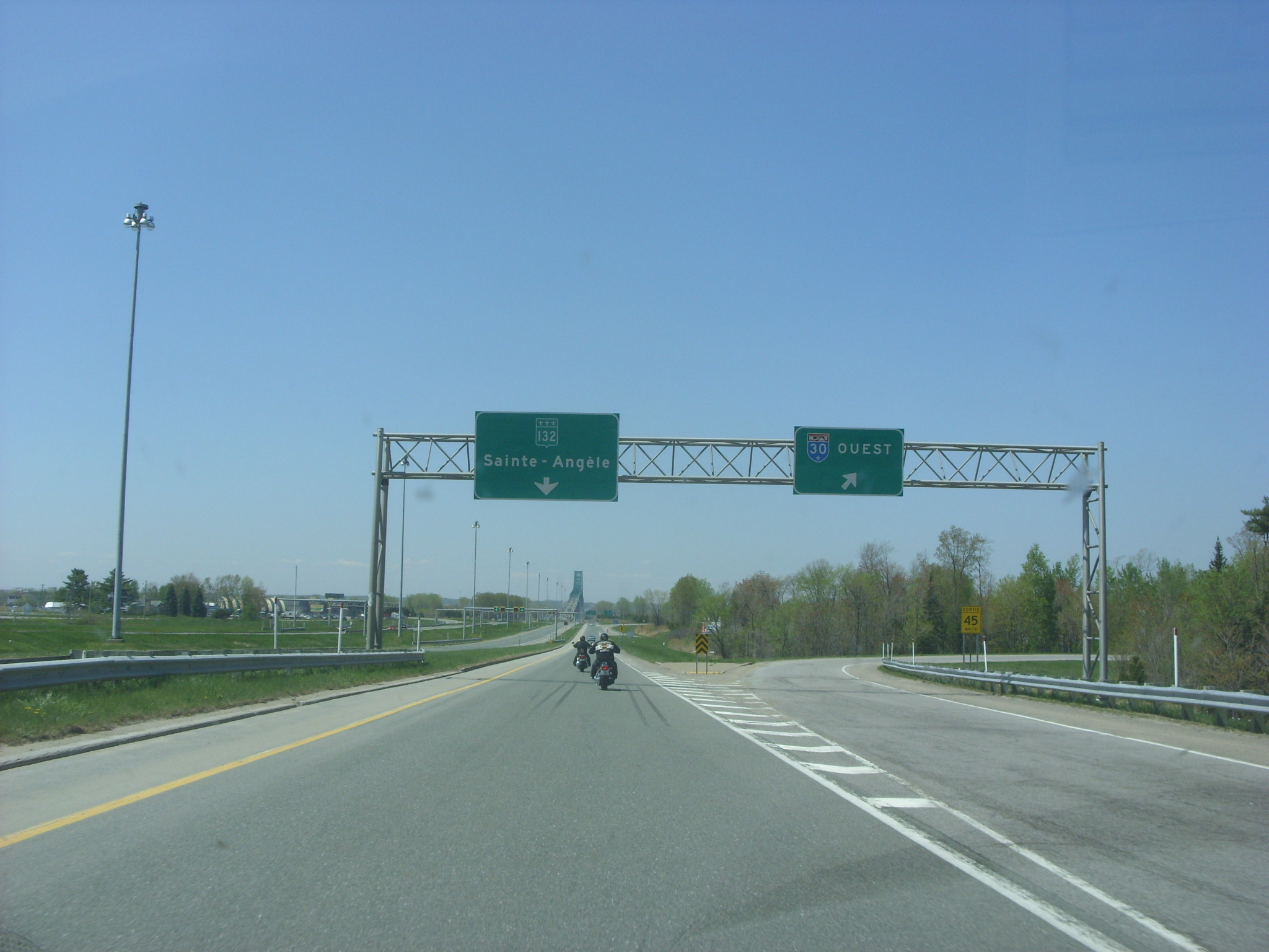 Junction of Route 132 (to Sainte-Angèle) and Autoroute 30 west (ouest) in Quebec.